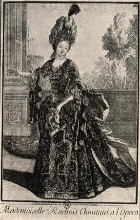 Portrait of French opera singer Marthe Le Rochois (1658-1728)